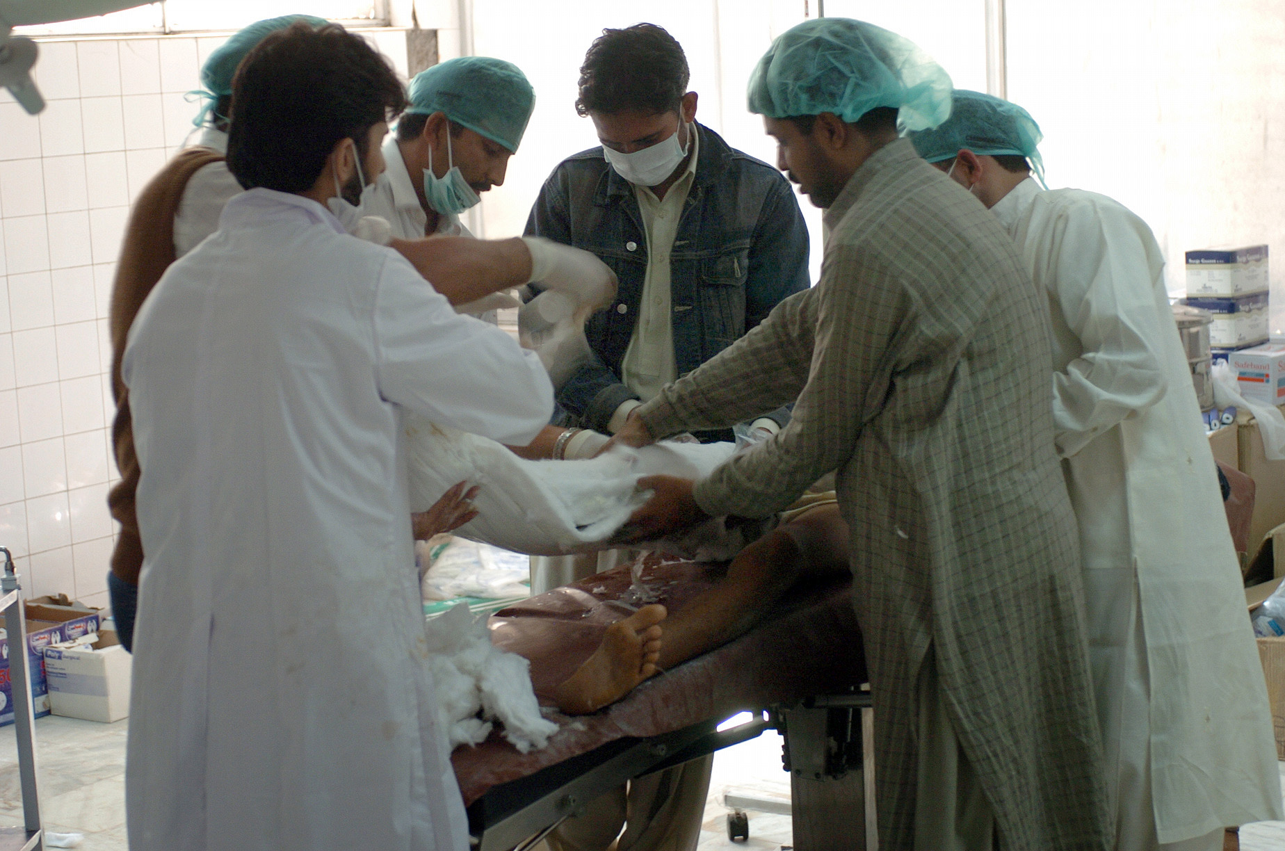 Muzafarabad, Pakistan (Oct. 13, 2005) – Pakistani doctors operate on an injured woman at one of the only hospitals left operational in the city of Muzafarabad, Pakistan. The United States government is participating in a multinational humanitarian assistance and support effort led by the Pakistani Government to bring aid to victims of the devastating earthquake that struck the region Oct. 8, 2005. U.S. Navy photo by Photographer’s Mate 2nd Class Timothy Smith (RELEASED)